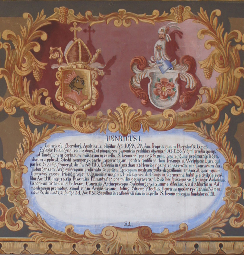 Wappentafel von Heinrich I. von Freising, Bischof von Freising, im Fürstengang zwischen Fürstbischöflicher Residenz und Freisinger Dom. Links das geistliche, rechts das persönliche Wappen, darunter ein lateinischer Text mit kurzer Biographie.